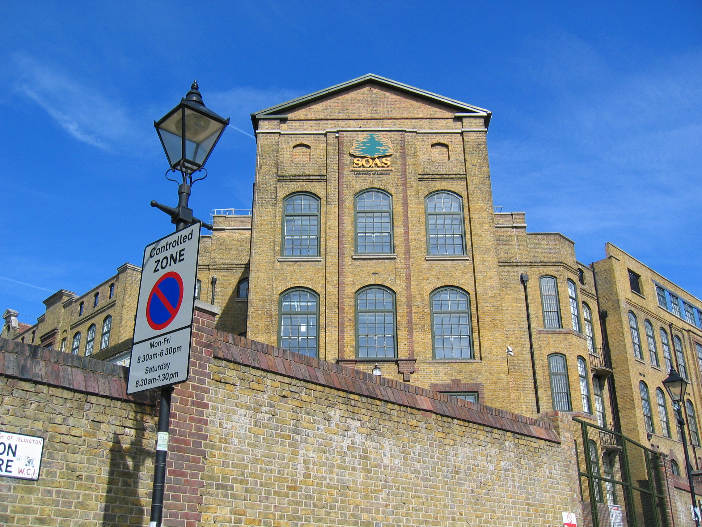 SOAS Vernon Square Campus Building